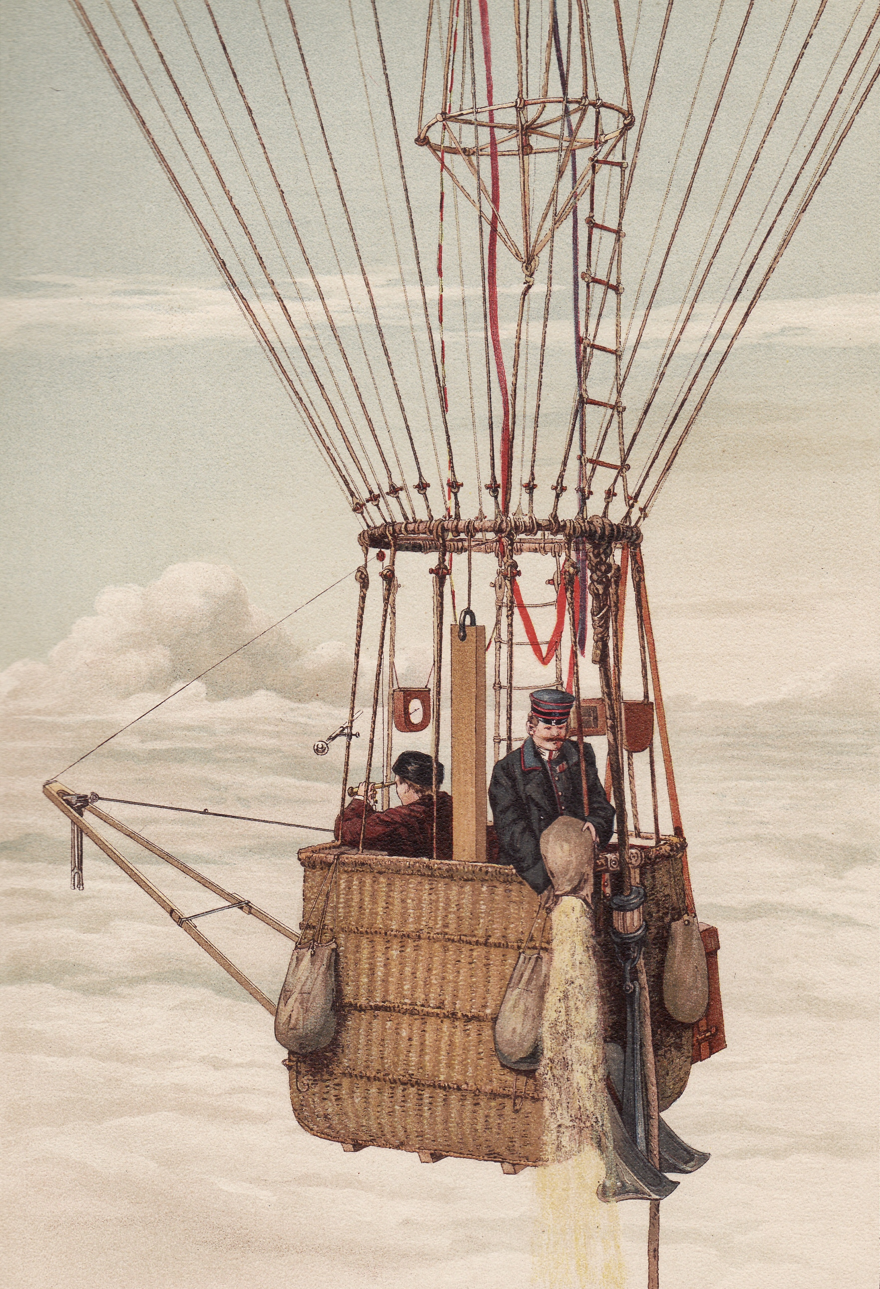 Basket of Balloon Phoenix with Hans Groß and meteorologist Arthur Berson during a scientific balloon ride in 1894, drawn by Hans Groß